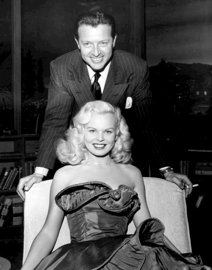 Photo of Mike Stokey and Sandra Spence from the television program Pantomime Quiz.